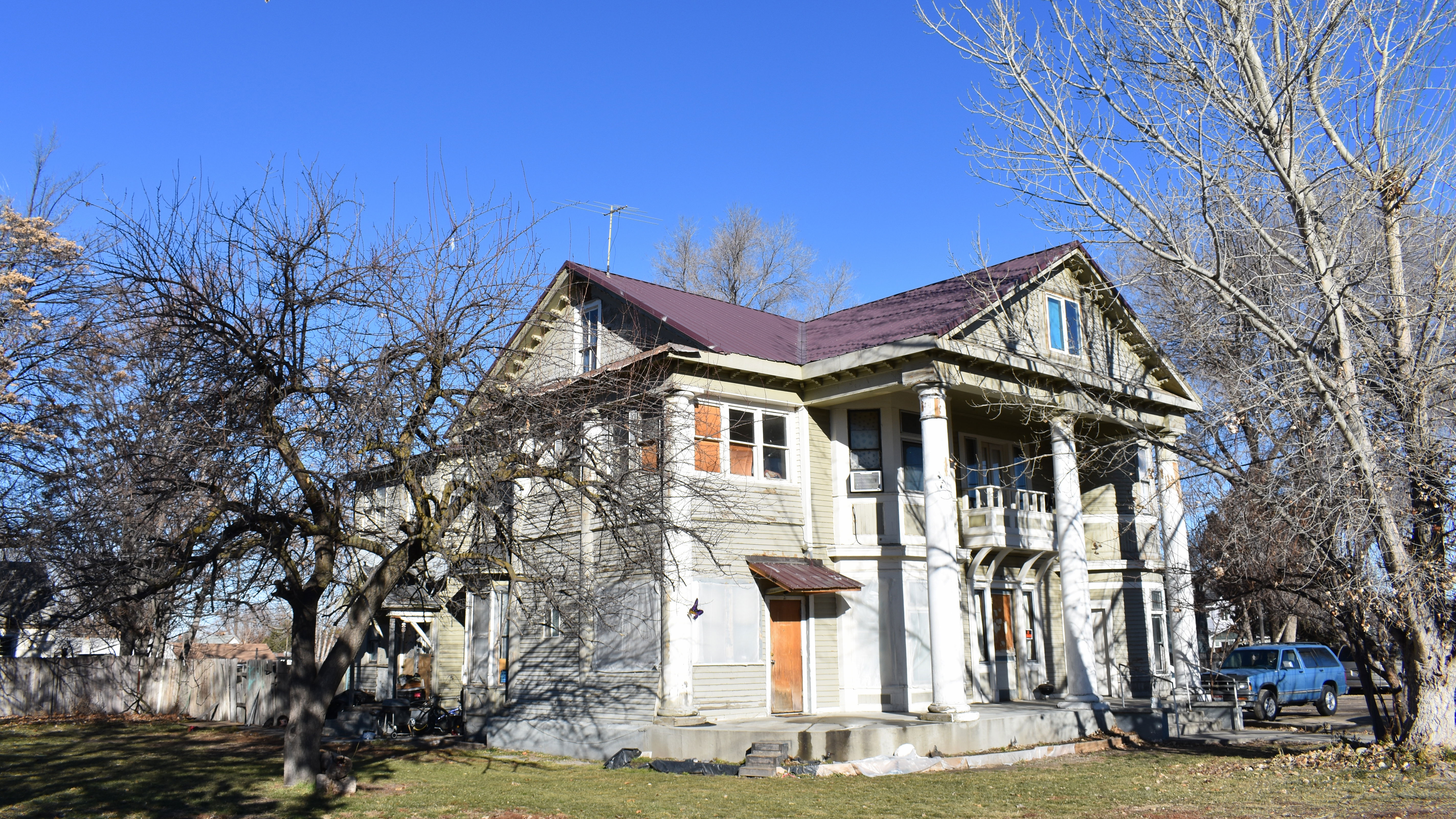 The Albert K. Steunenberg House is listed on the National Register of Historic Places. The house was remodeled in 1904 by Tourtellotte & Co. of Boise. Albert Steunenberg and his brother, Frank, were owners of The Caldwell Tribune from 1886 until the early 1890s. Albert helped to found the Caldwell Commercial Bank and became the bank's cashier, and Frank served as governor of Idaho.